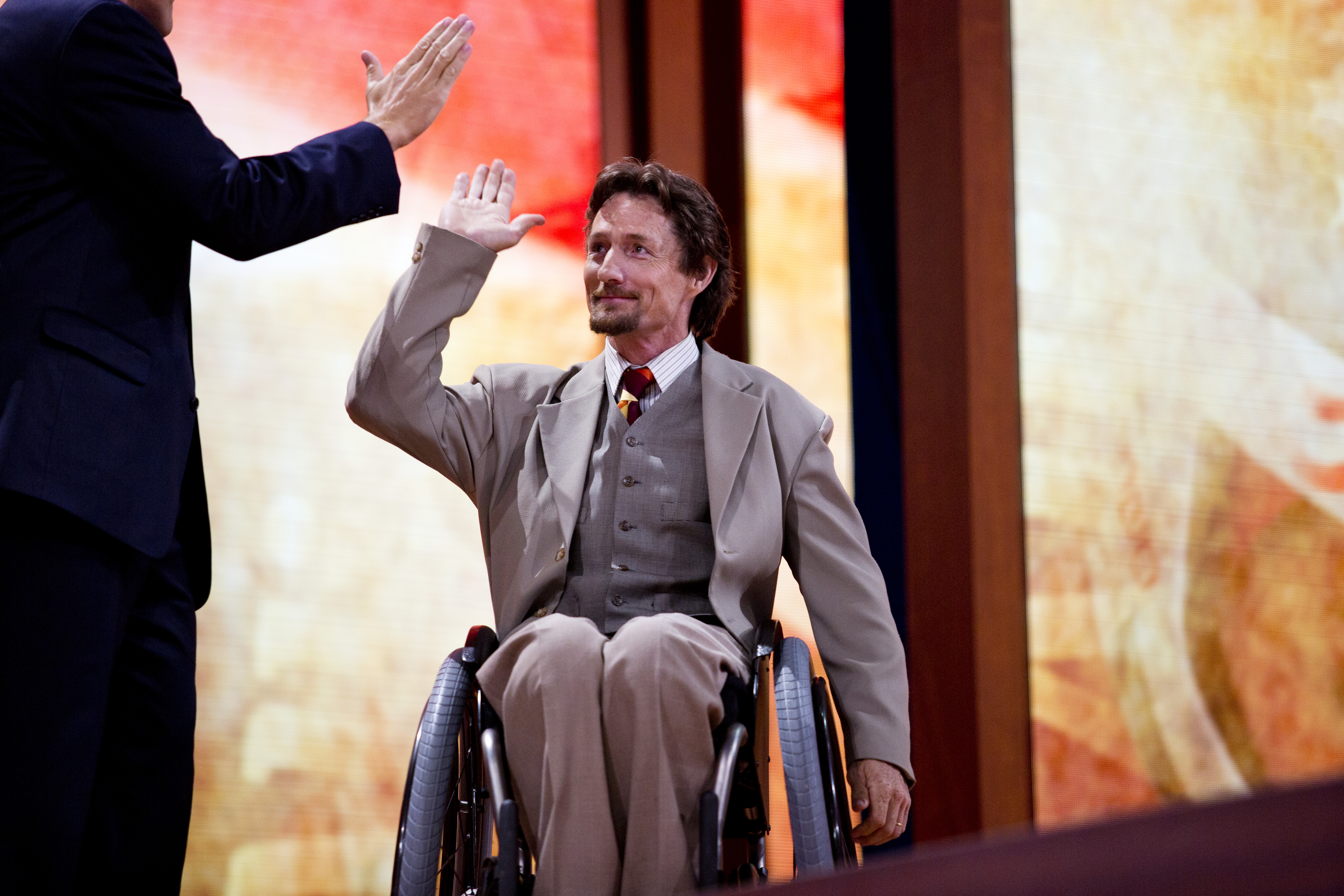 Christopher Devlin-Young, American Paralympic alpine skier, enters the stage to join other Olympians applauding GOP Presidential Candidate Mitt Romney's rescue of the 2002 Salt Lake City Olympics. Photo by Mallory Benedict/PBS NewsHour